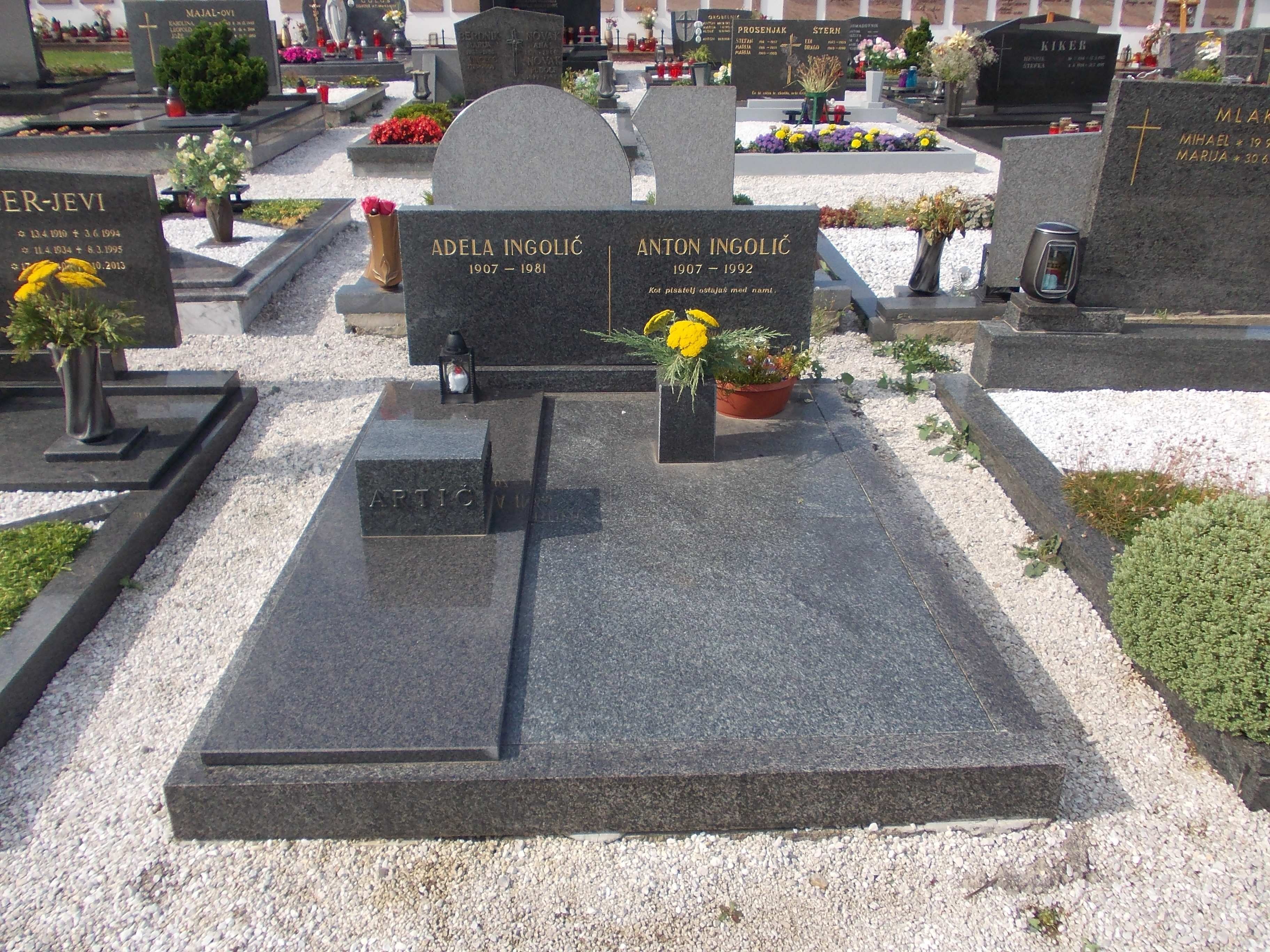 The grave of Anton Ingolič, Zgornja Polskava Cemetery